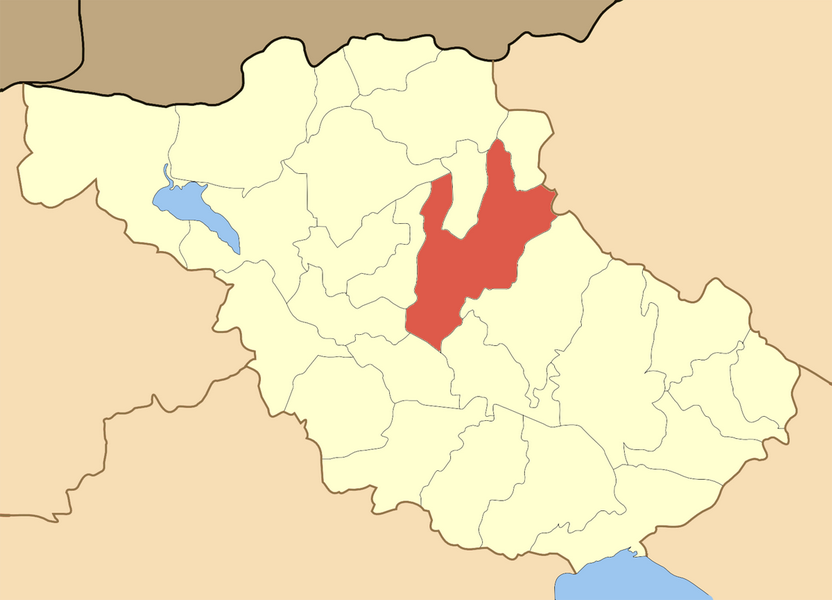 Locator map of Serres municipality in Serres perfecture in Greece.